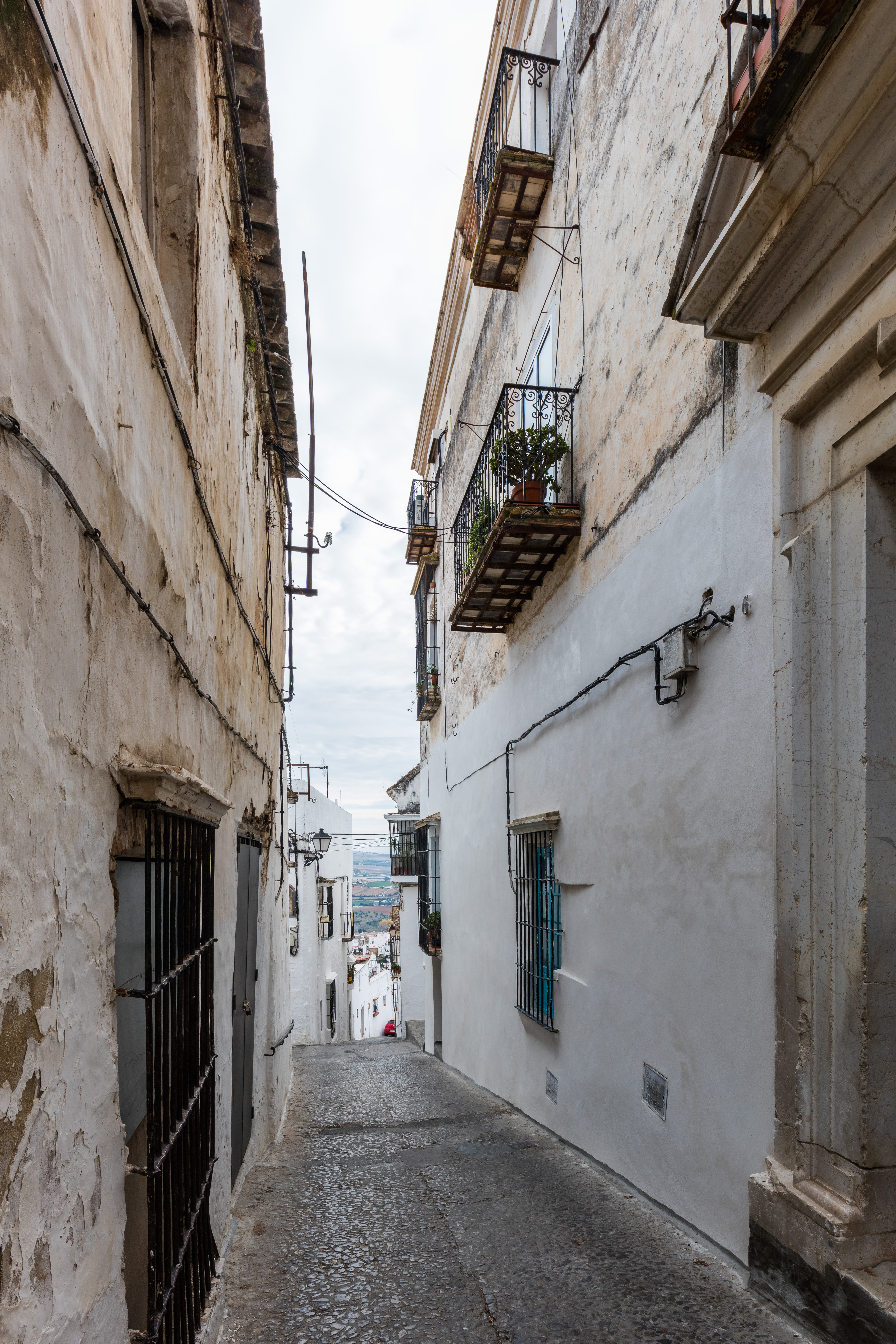 Street in Arcos de la Frontera, Cádiz, Spain